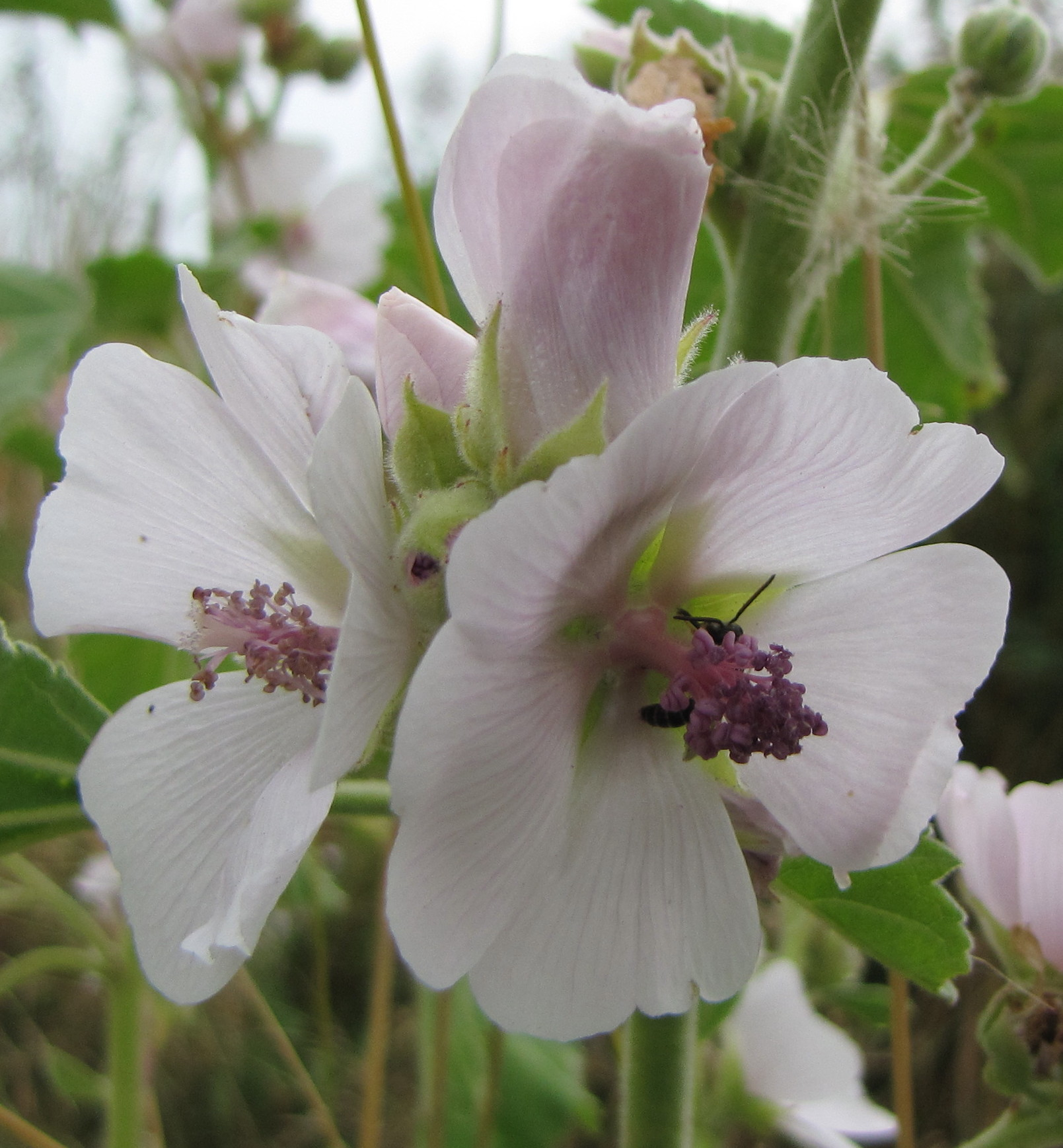 Near Rye.